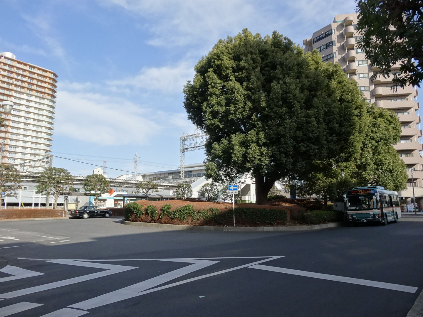 The station forecourt on the south side of Kotesashi Station in Saitama Prefecture, Japan